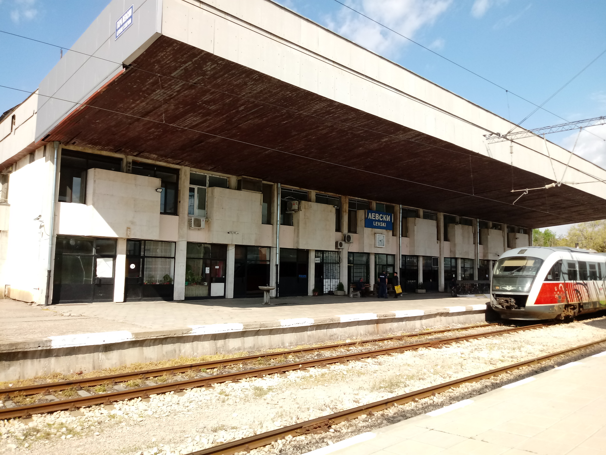 Railway station in the Bulgarian town Levski